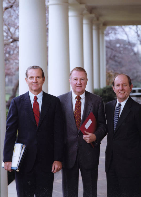 "The Troika" (from left to right) Chief of Staff James Baker III, Counsellor to the President Ed Meese, Deputy Chief of Staff Michael Deaver at the White House. 12/2/1981.